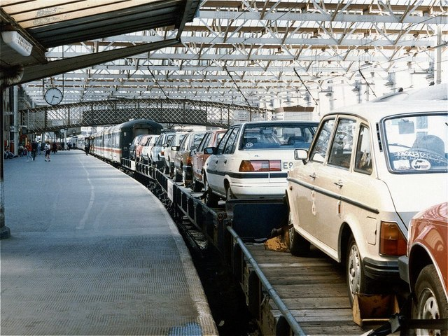 Railway Station, Carlisle Train hauled by BR Class 85003, containing car transporters.